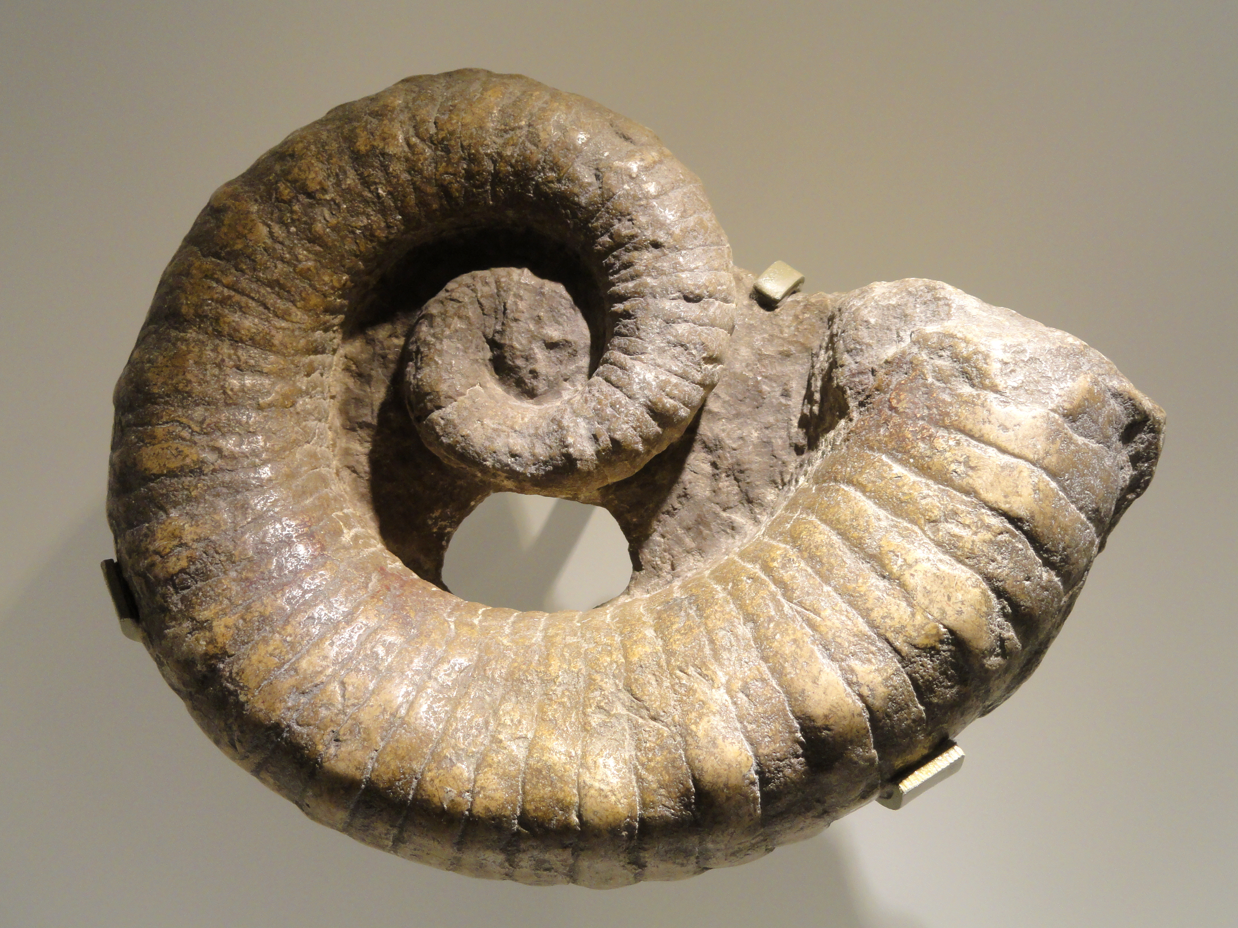 Exhibit in the Houston Museum of Natural Science, Houston, Texas, USA.